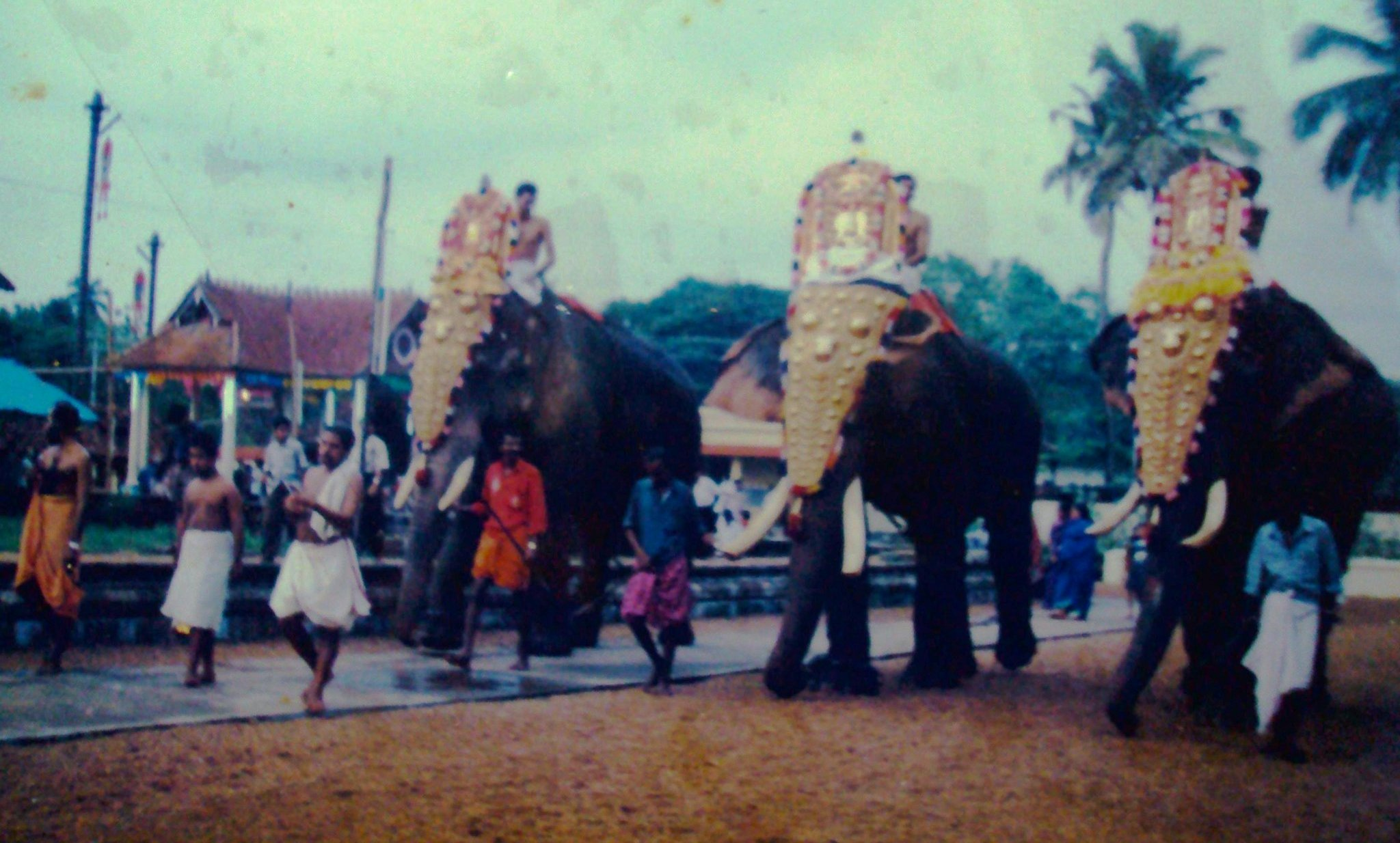 Vazhappally Temple Sribali Ezhunallathu Aranmula Parthan (Left) Thiruvalla Jayachandran (Center) Aranmula Mohan (Right)